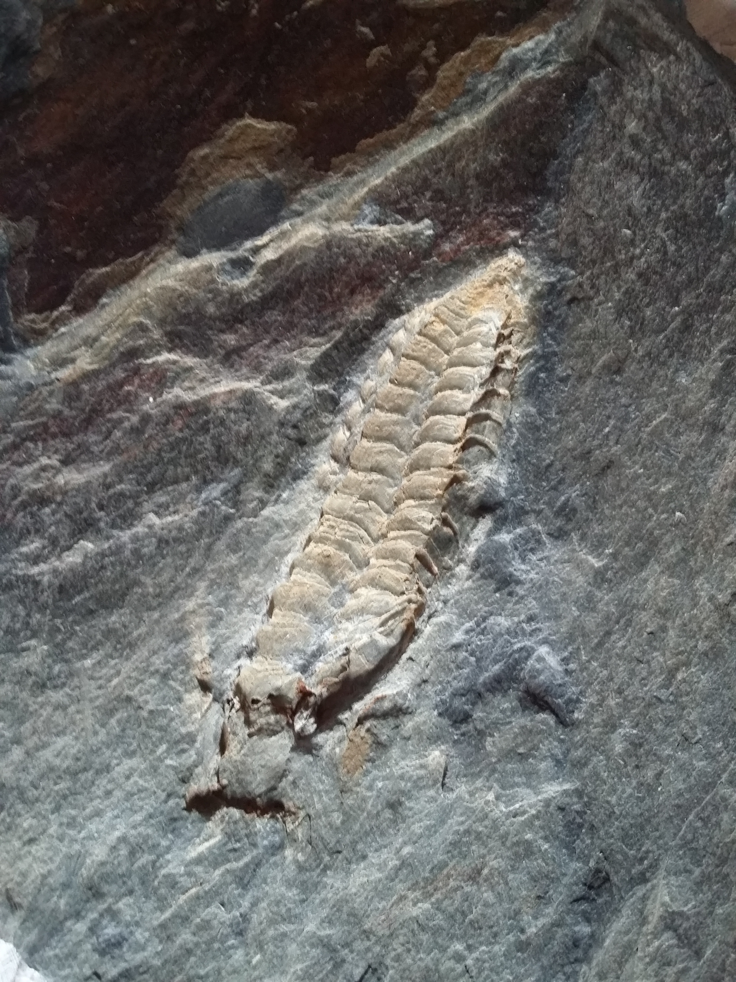 Worm fossil (Paléozoic-Ordovician siltstone) discovered in the downtown of Vitré, Brittany, France.